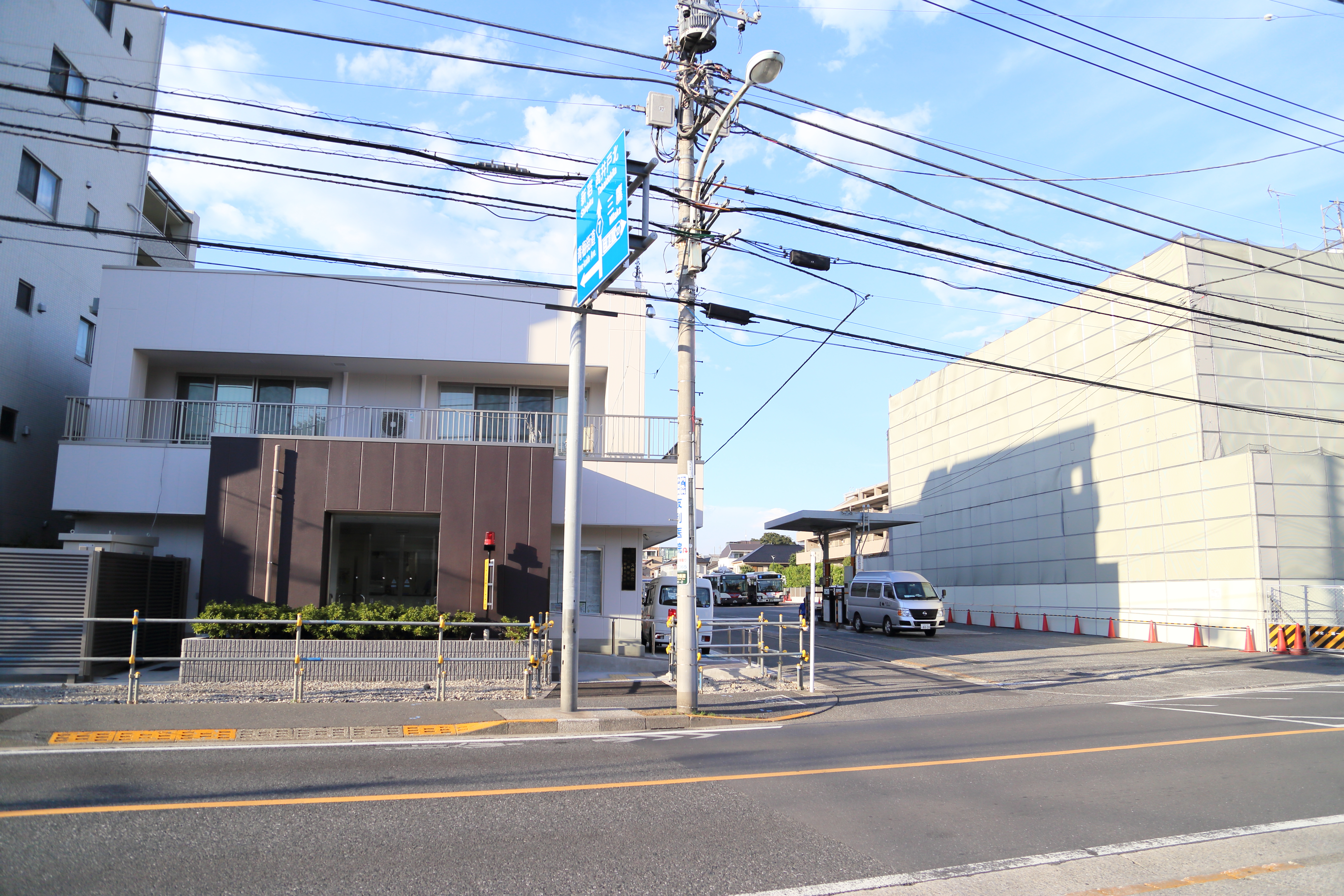 Musashino office, KANTO Bus Co., Ltd.